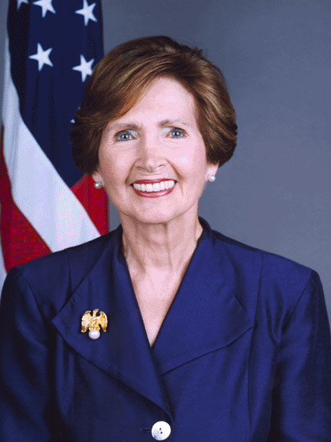 Connie Morella, former United States Ambassador to the OECD.